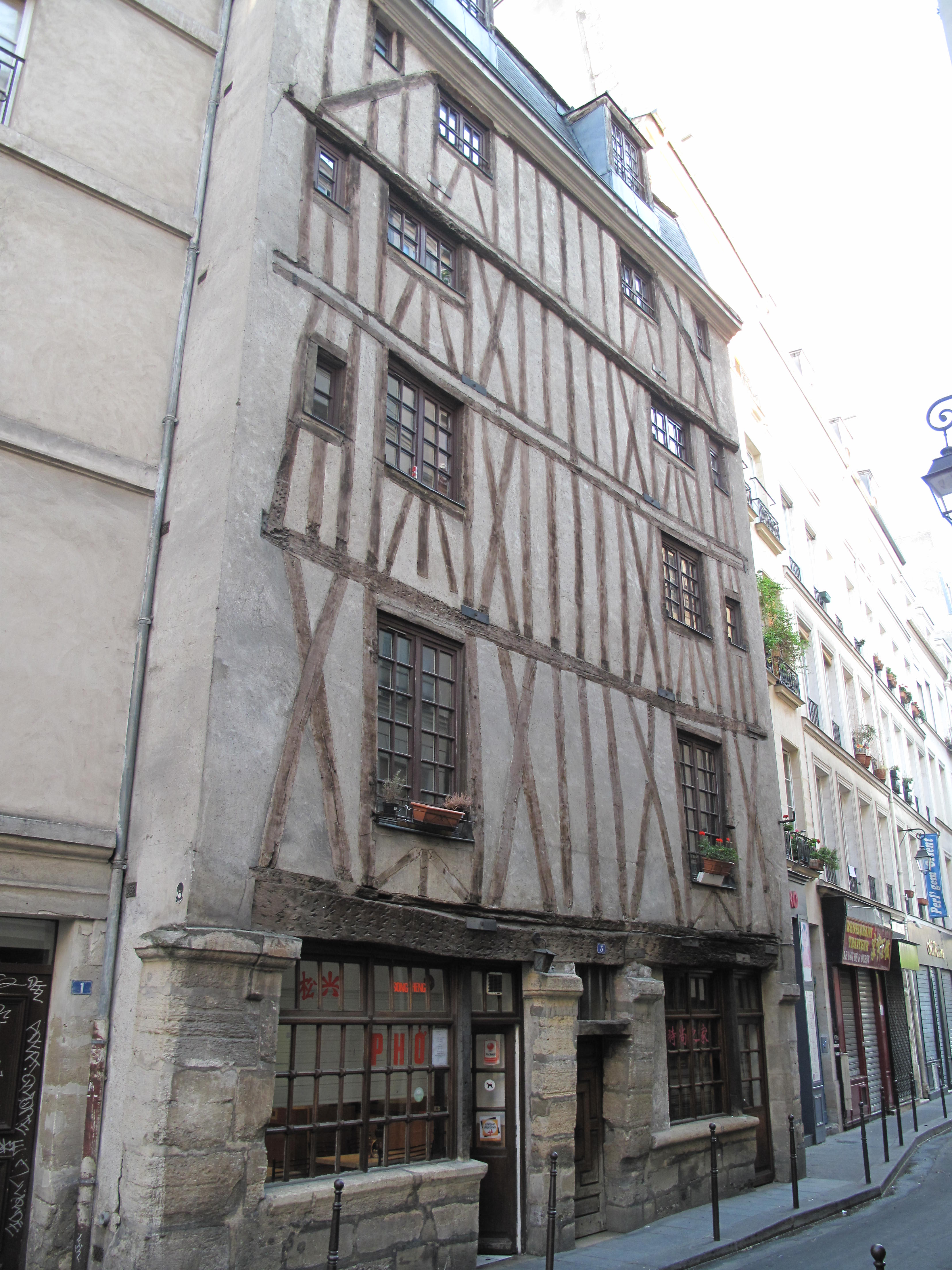 Medieval-looking house, 3 rue Volta, Paris 3rd arrond.